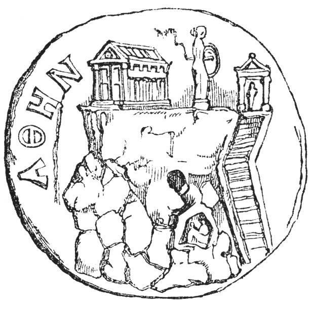 Statue de Athena Promachos of the Acropolis of Athens, with the Pan cave at the base of the hill. The source does not specify the currency.